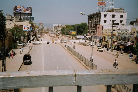 One of the famous roads in Rawalpindi, the Murree Road